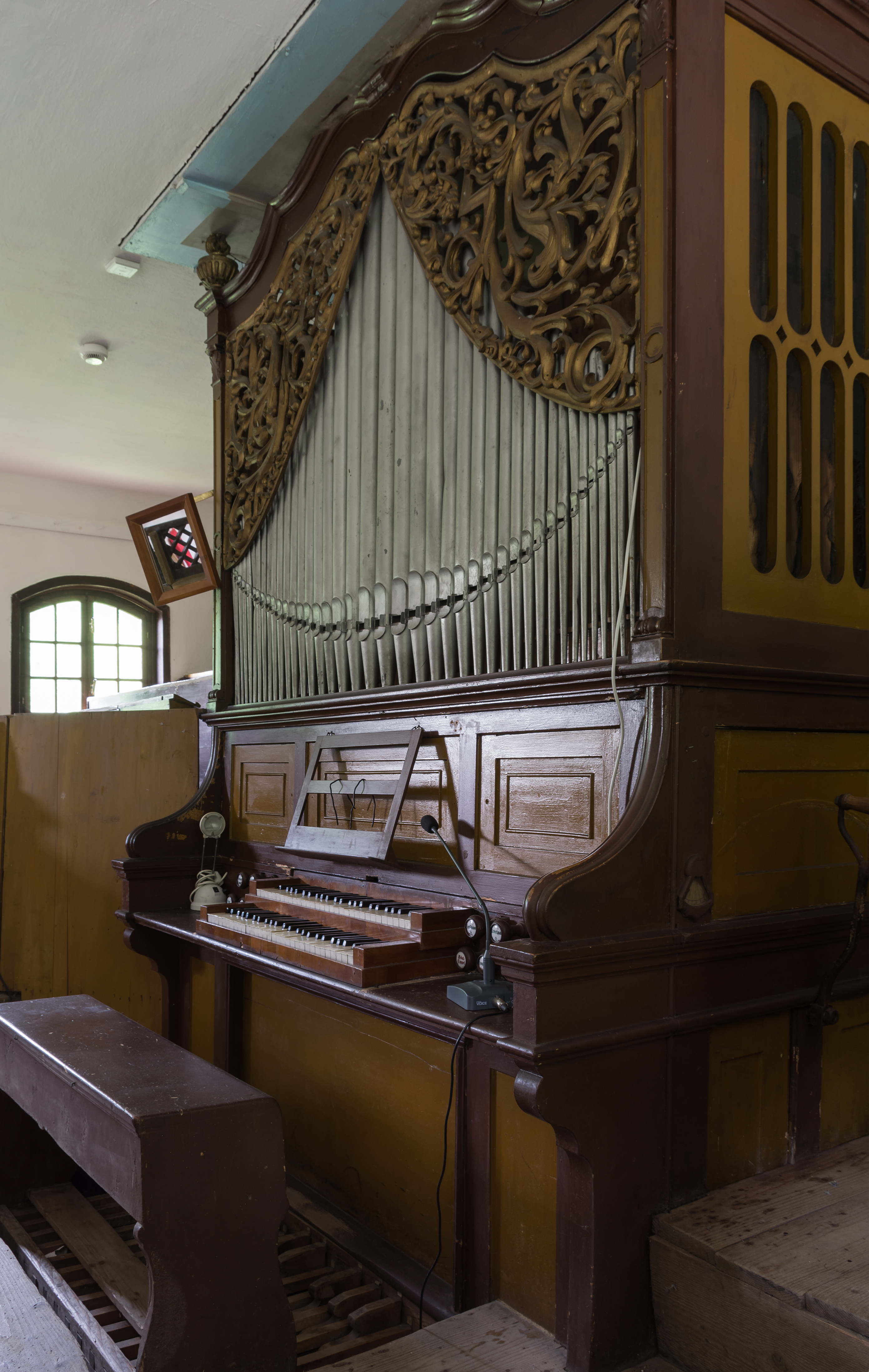 Church of the Assumption in Nowa Bystrzyca